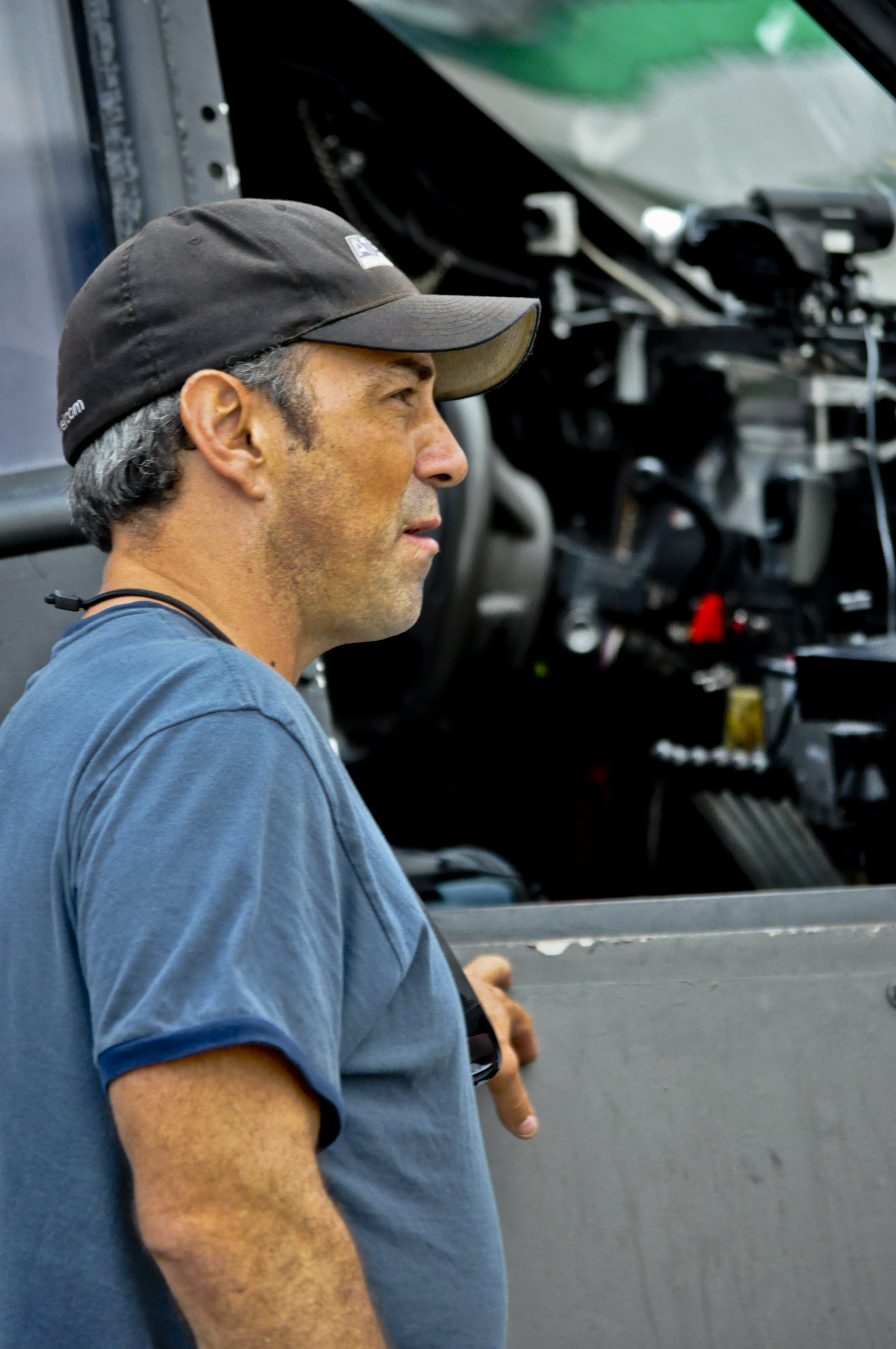 Sean Casey from the Discovery Channel show "Storm Chasers". Pictured infront of TIV (Tornado Intercept Vehicle) in Saint Joseph, MO on June 13, 2011 Photo Taken By: Derek A. Rice